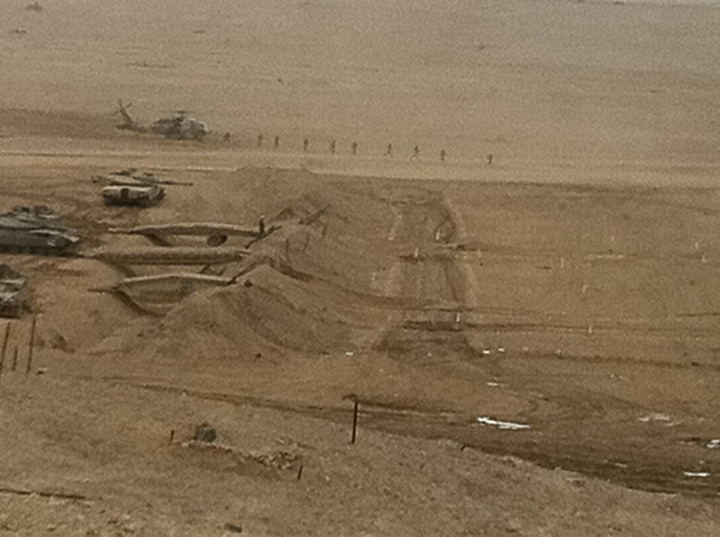 February 1, 2011. In a live interoperability drill in southern Israel, IDF infantry, artillery, tank and air forces simulated taking control of an enemy village. The IDF Chief of Staff, Lt. Gen. Gabi Ashkenazi, was present at the drill and remarked, "There is relative calm along the border, but the reality may change. It's enough to look at what is happening in Egypt to realize this." The drill was also an opportunity for the Chief of Staff to part from the Ground Forces, where he expressed his gratitude towards the young commanders present: "When I look towards the future, I have full confidence -- you are the guarantee for the continuation of the existence of Israel."